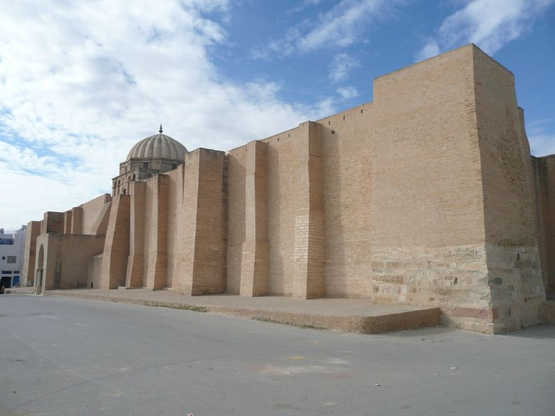 Southern wall of the Great Mosque of Kairouan.